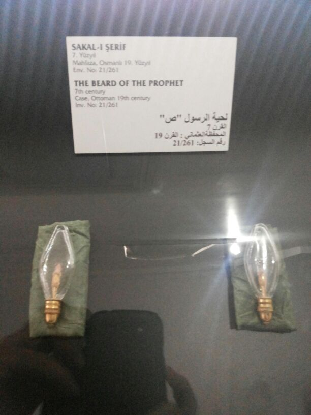 A sample of Prophet Moahammed's beard at Topkapı Sarayı, Istanbul, Turkey.